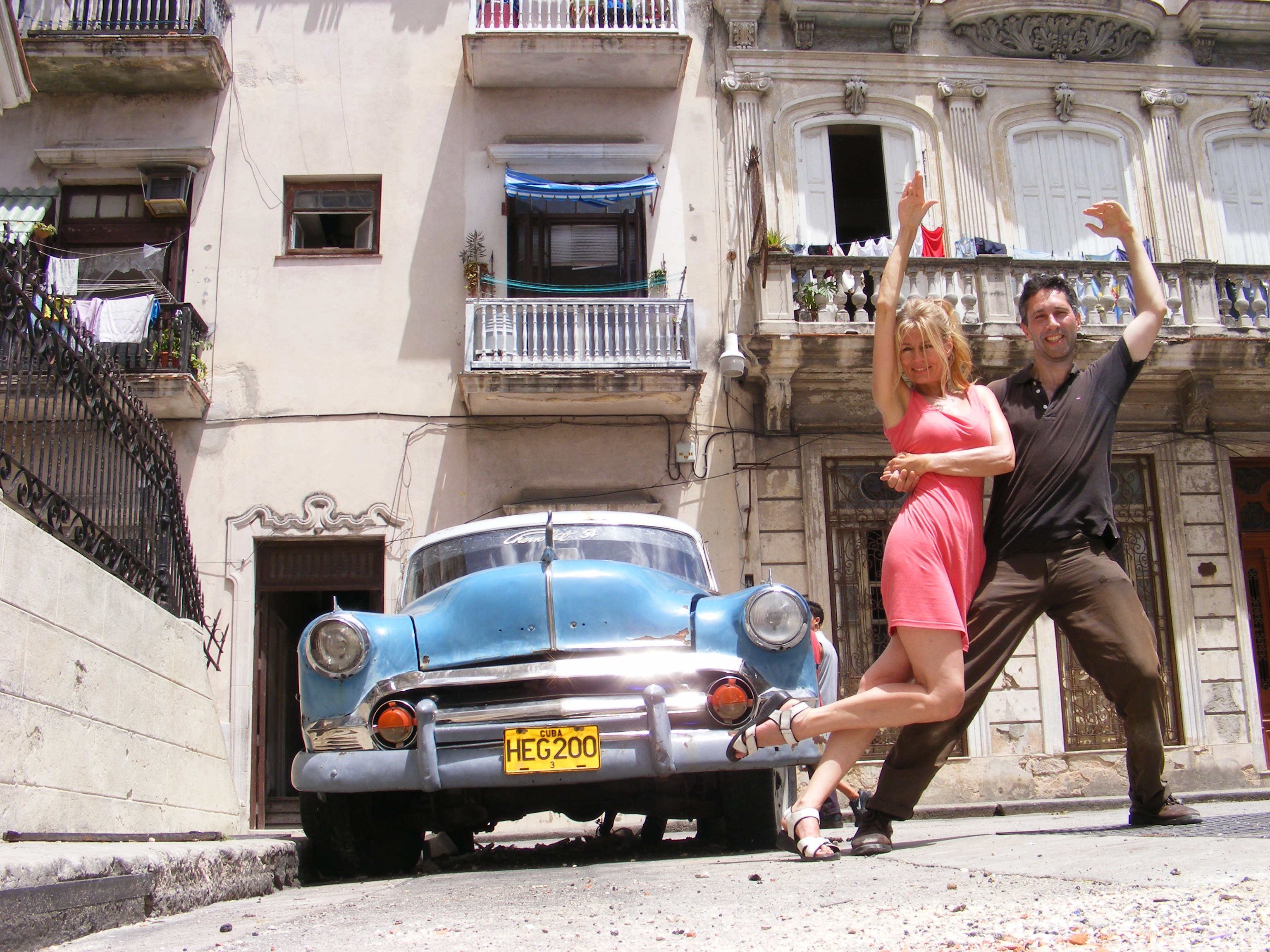 CUBA Havana - salsa Anthony and Steph